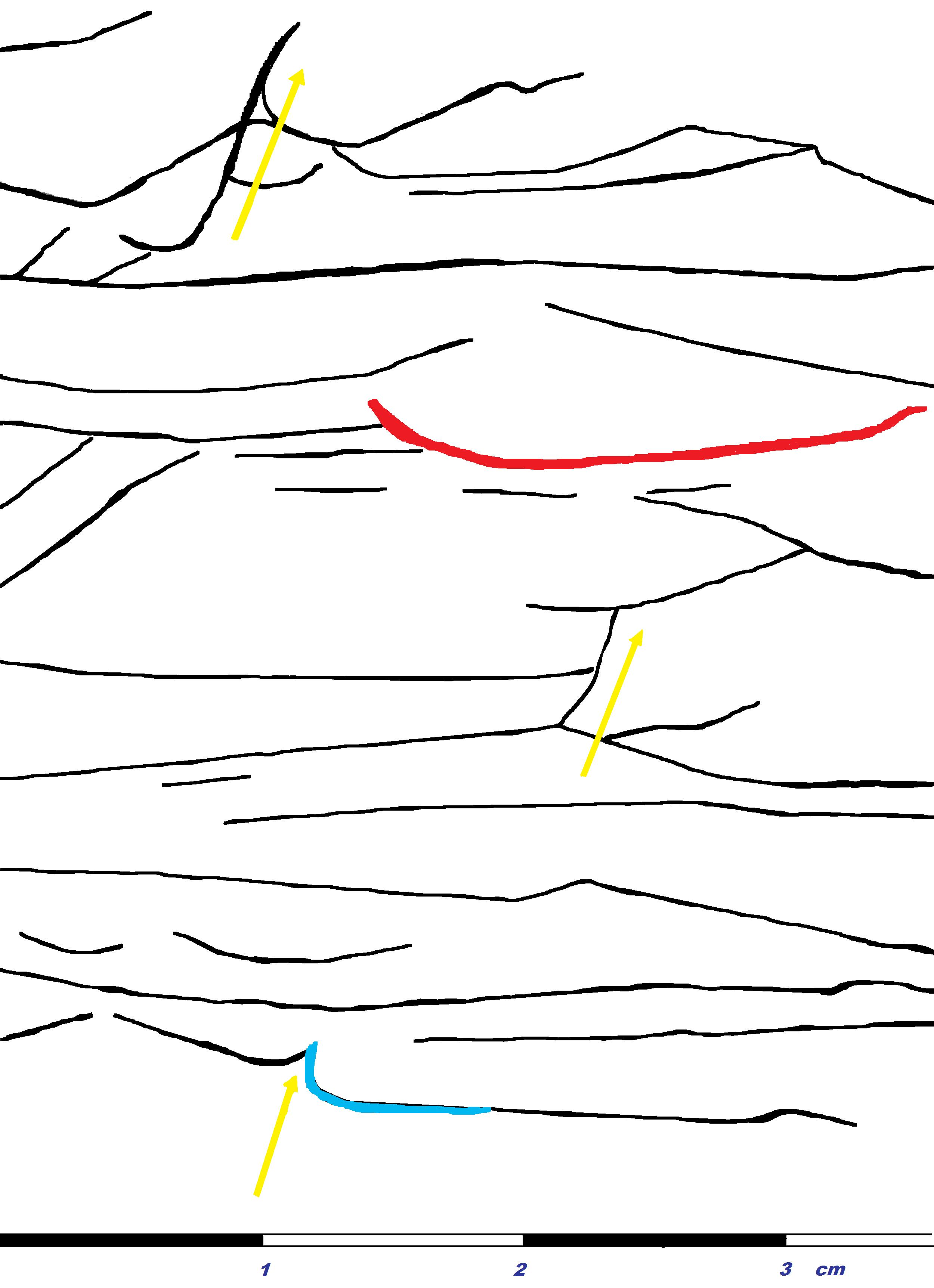 Sketch of dish structure from the Jack Fork Group in Oklahoma. Outlined in red a nearly perfect dish. Water escape indicated by yellow arrows. Upturned edge of a dish in blue. With scale.